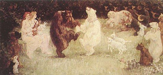 The Rites of Spring.